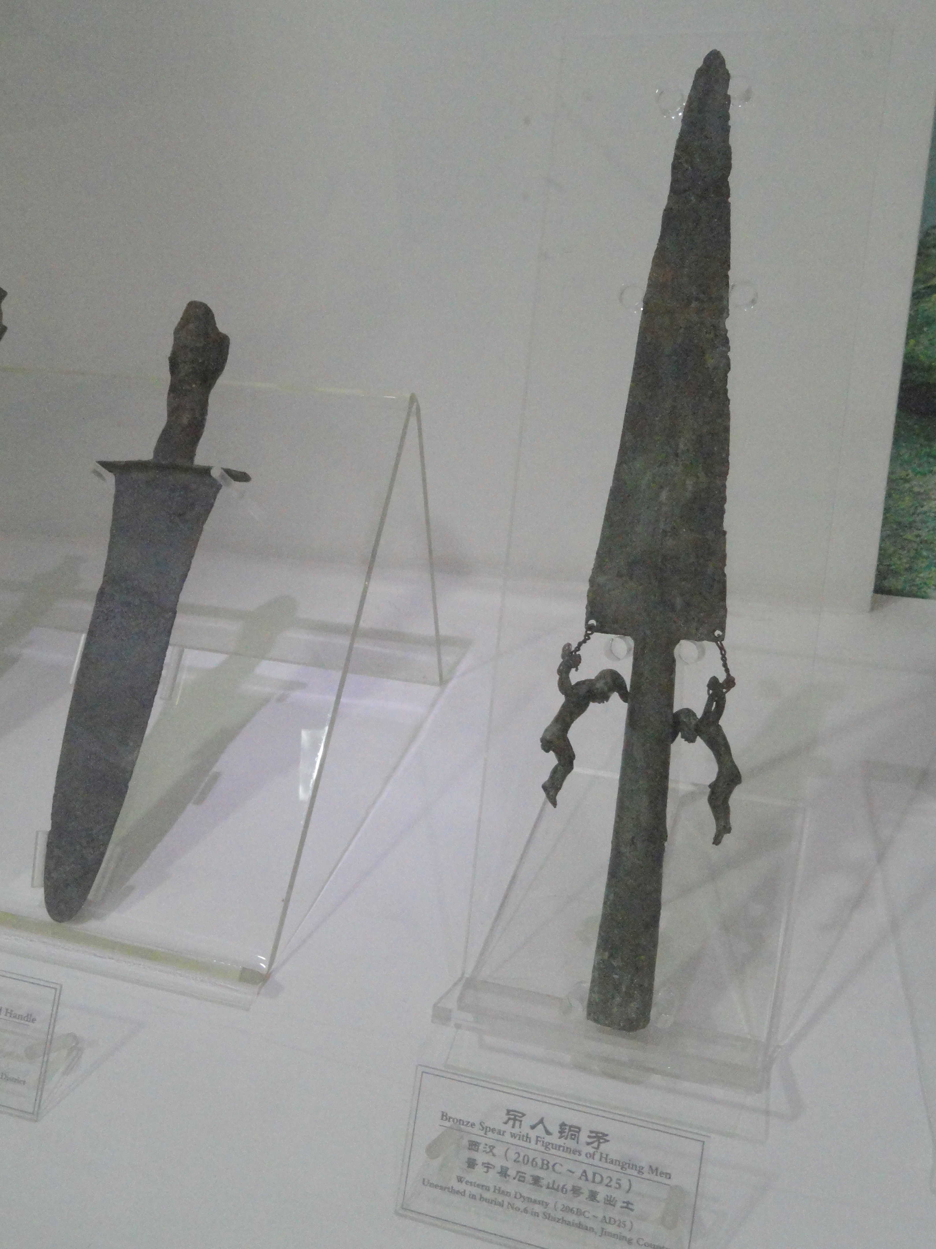 Exhibit in the Yunnan Provincial Museum, Kunming, Yunnan, China.